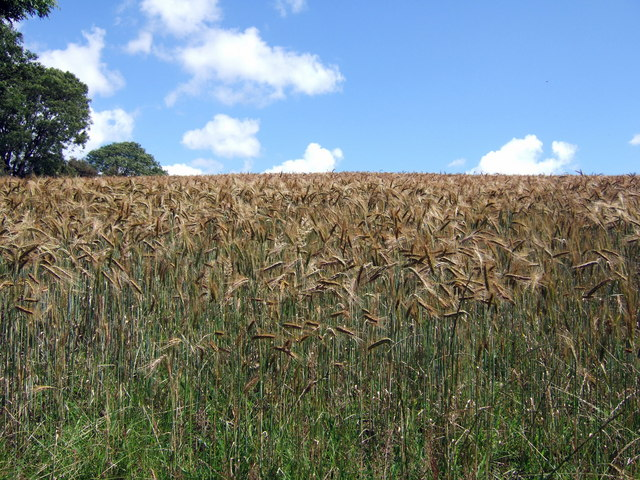 Barley field. Barley growing below Castell Mawr which is not visible from the ground here and best viewed from the air (see 405948). Barley has long been a traditional crop in West Wales and was used in the past for domestic brewing, providing farming families and labourers with a light beer for everyday drinking.